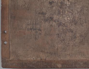 This image is out of copyright and the director of the Papyrology Collection, which owns the original artifact, gave me permission to use it in a Wikipedia entry